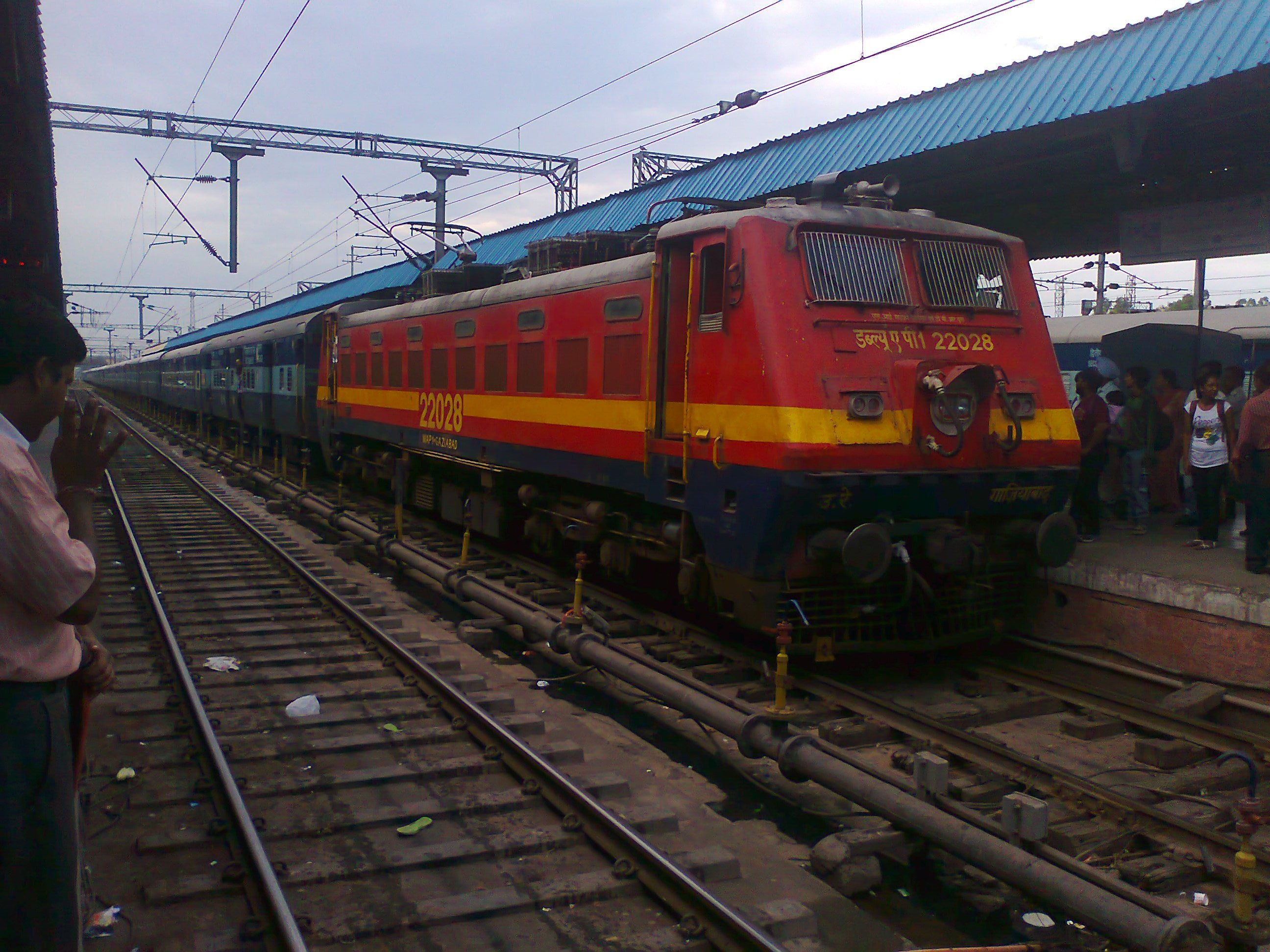 Shane Punjab Express with GZB shed WAP-1 loco at Jalandhar, Punjab